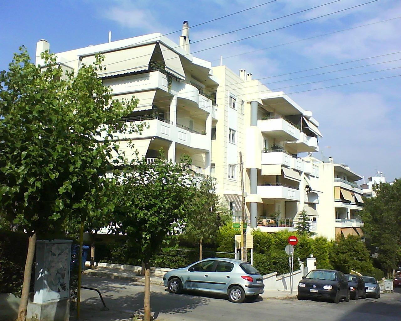 Holargos